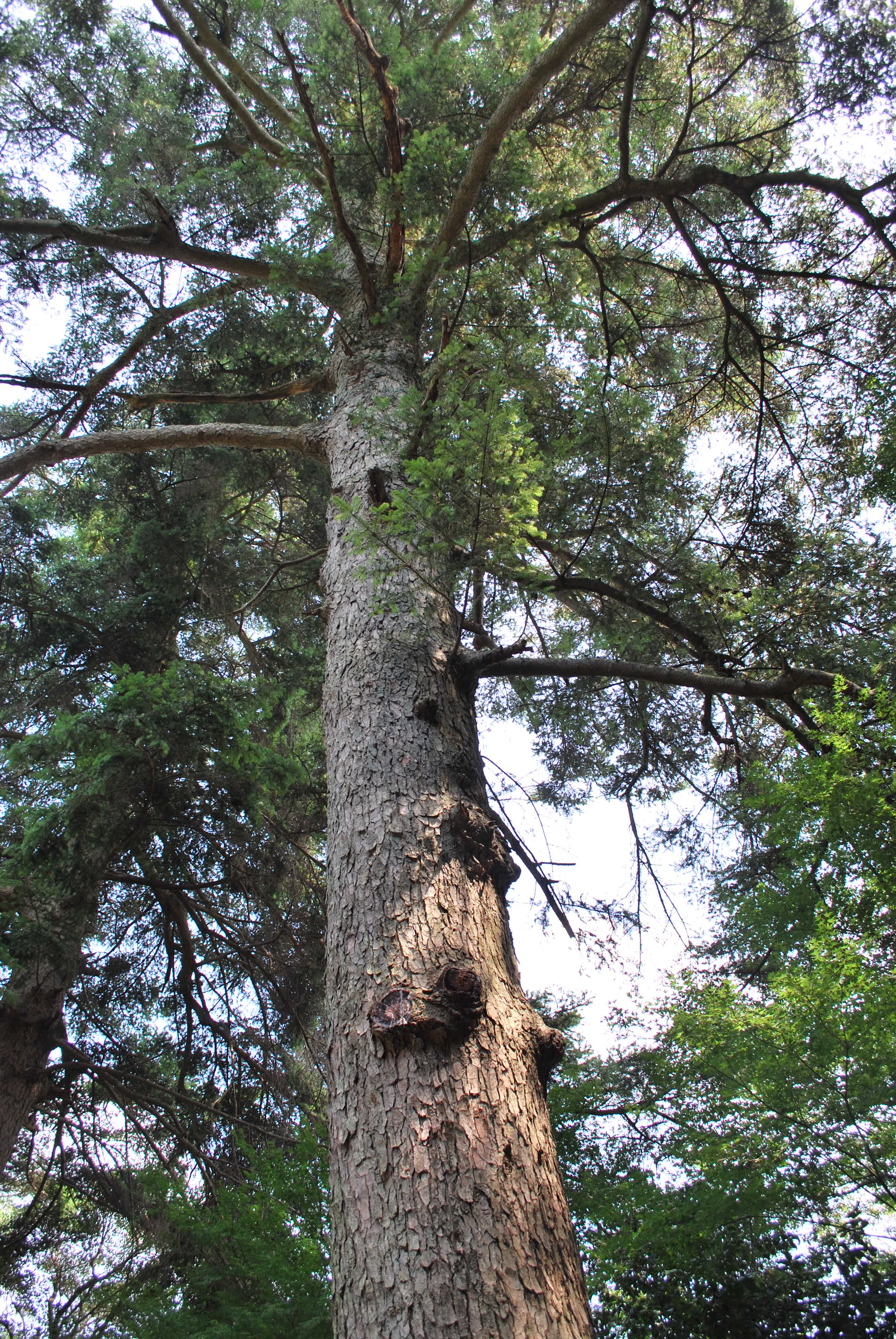 Fir tree, Jūbu-ji